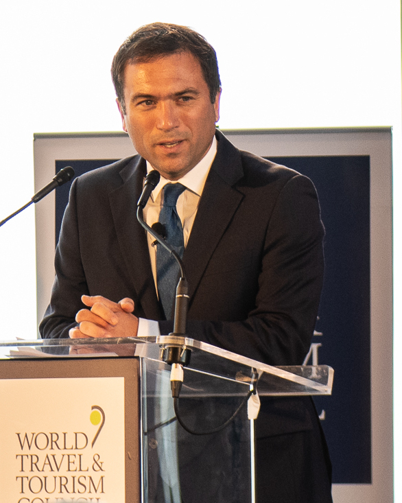 Ros Atkins, Presenter, BBC News